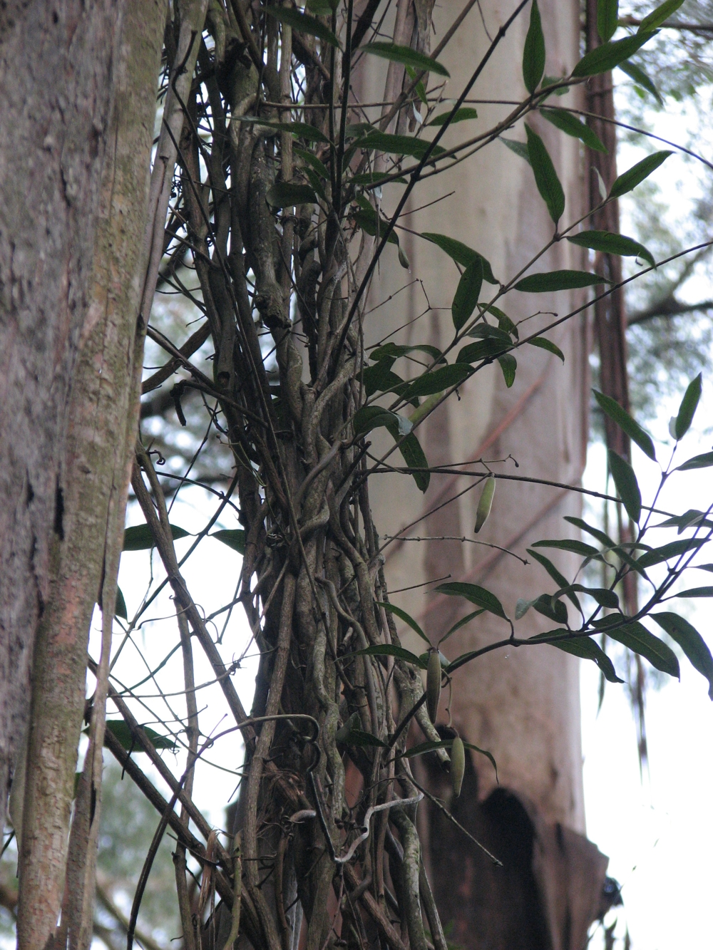 Parsonsia brownii, Sherbrooke Forest, Victoria, Australia